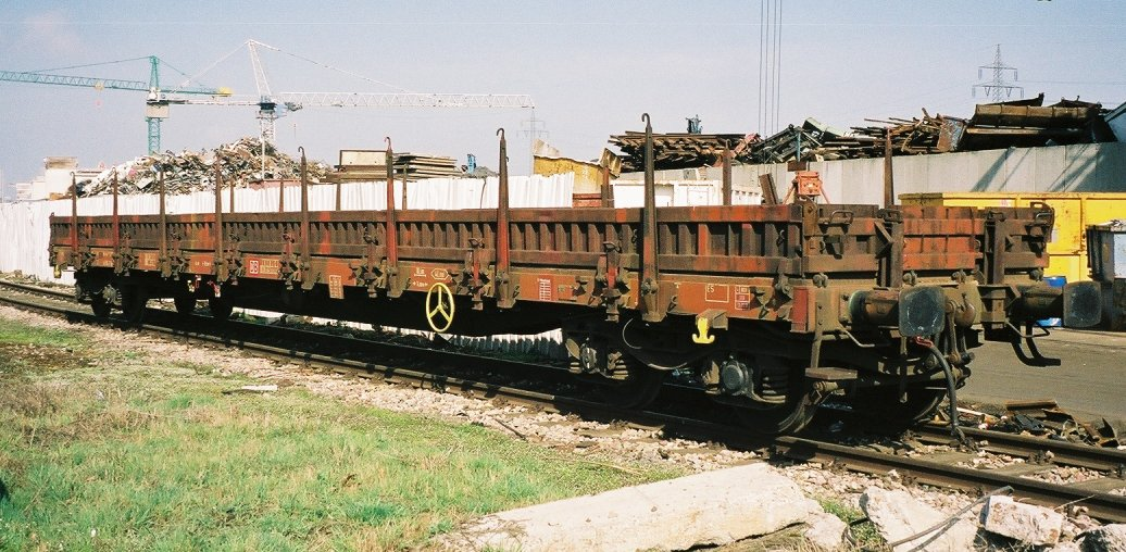 Railway freight car My onwn photo taken in spring 2005 in Mannheim, Germany